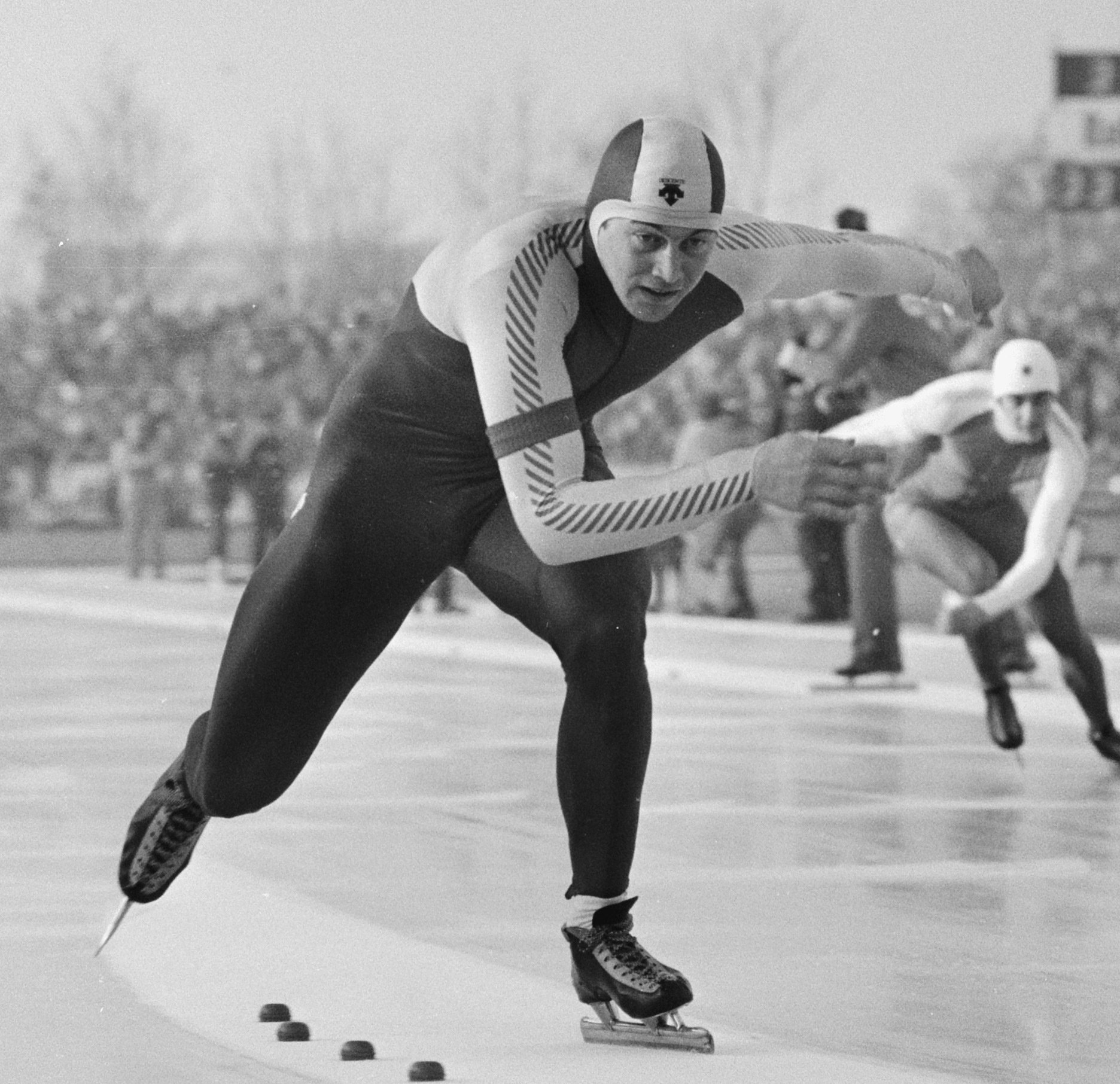 Igor Zhelezovski. On the right: Gaetan Boucher.